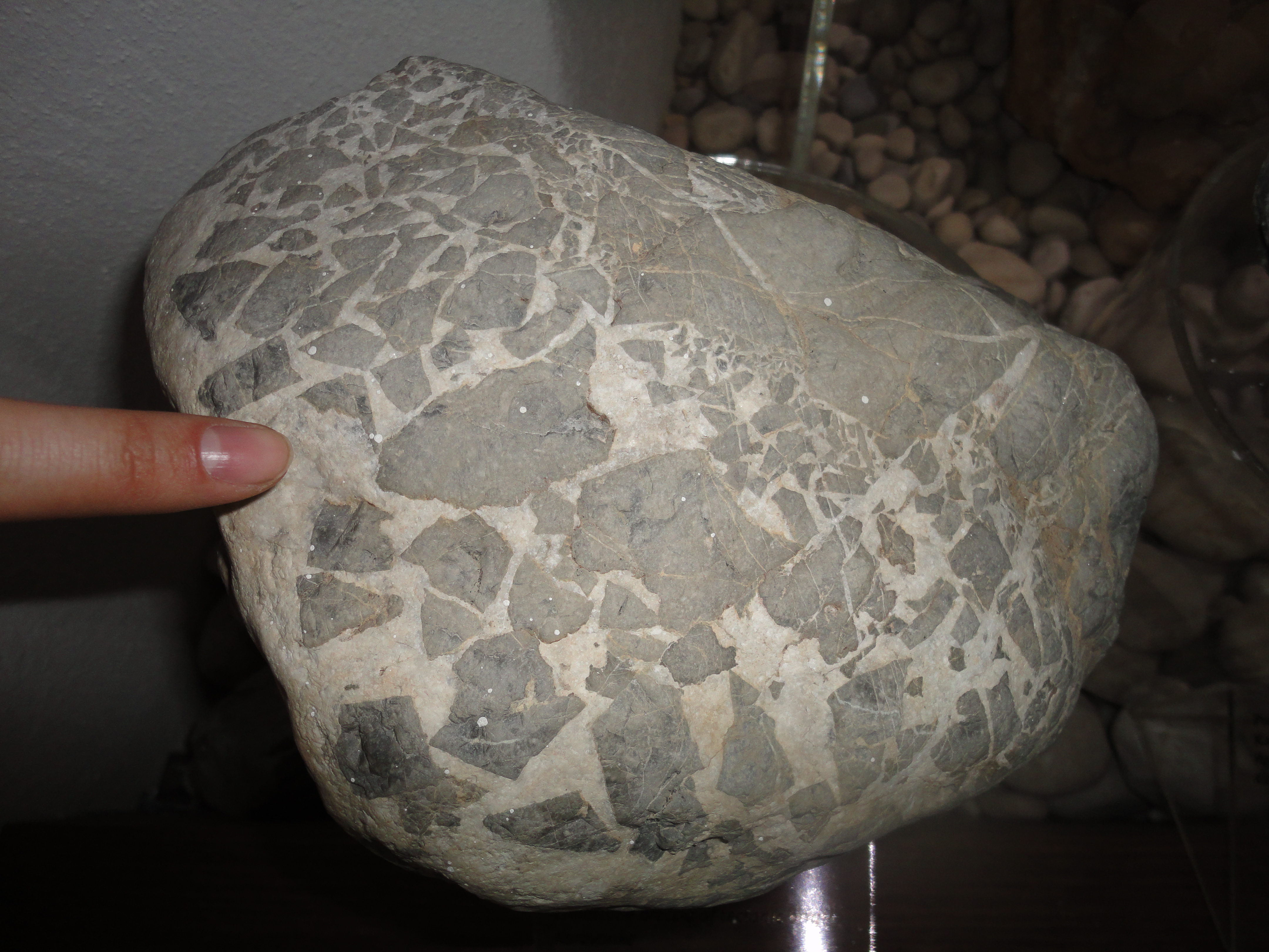 Tectonic breccia, Julian Alps, Slovenia